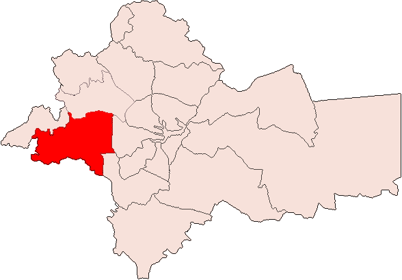 AMMAN-Wadi Esseir.png — Maps of Amman User:Tarawneh/rami